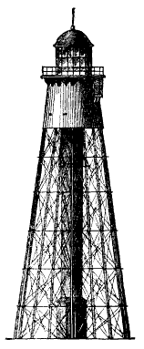 Swedish lighthouse of a model often built in the 1860s and 1870s